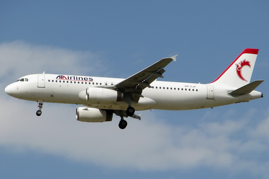 ATA Airlines A320 landing at Tabriz airport